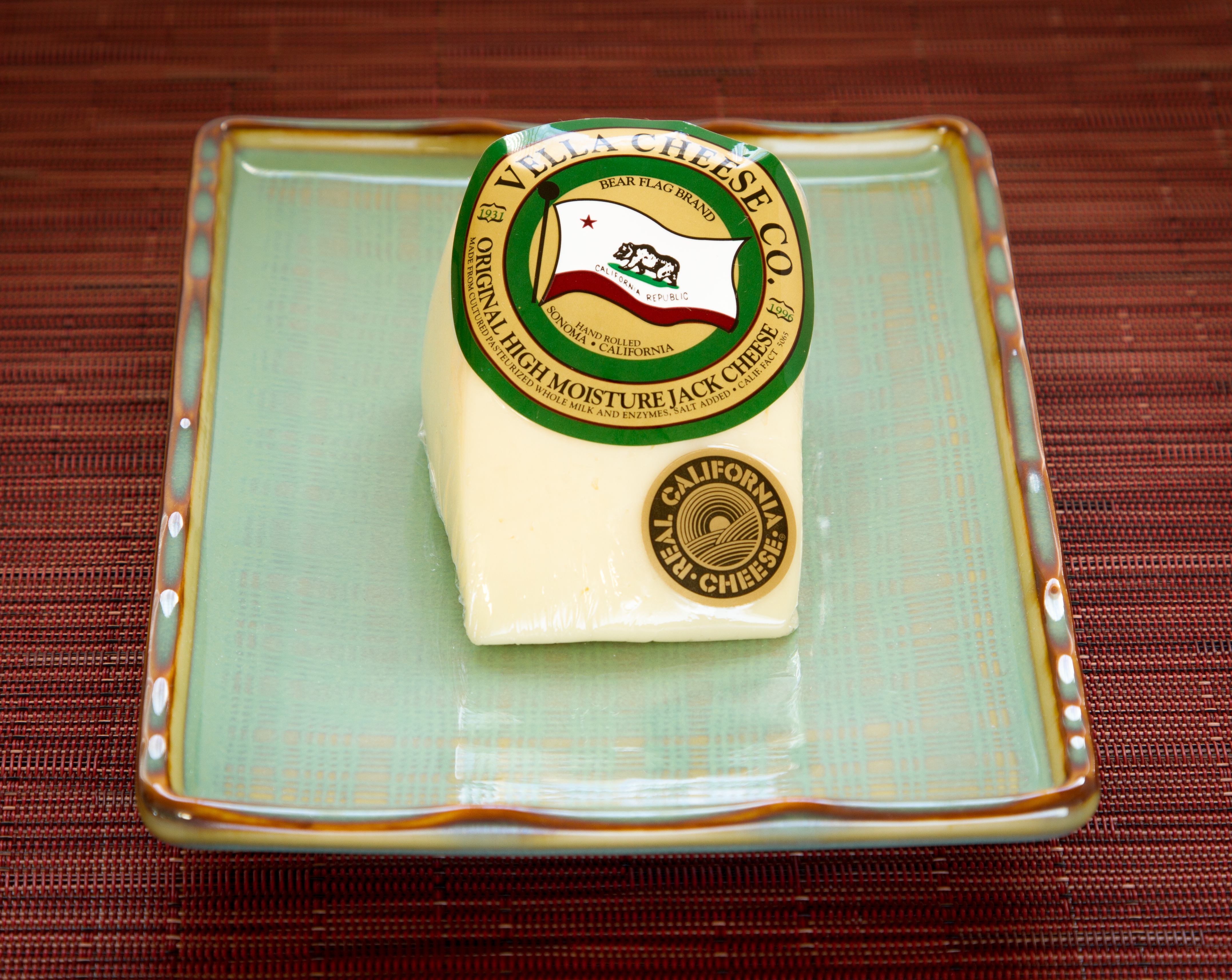 Young Monterey Jack, made by Vella Cheese Co., Sonoma, California.